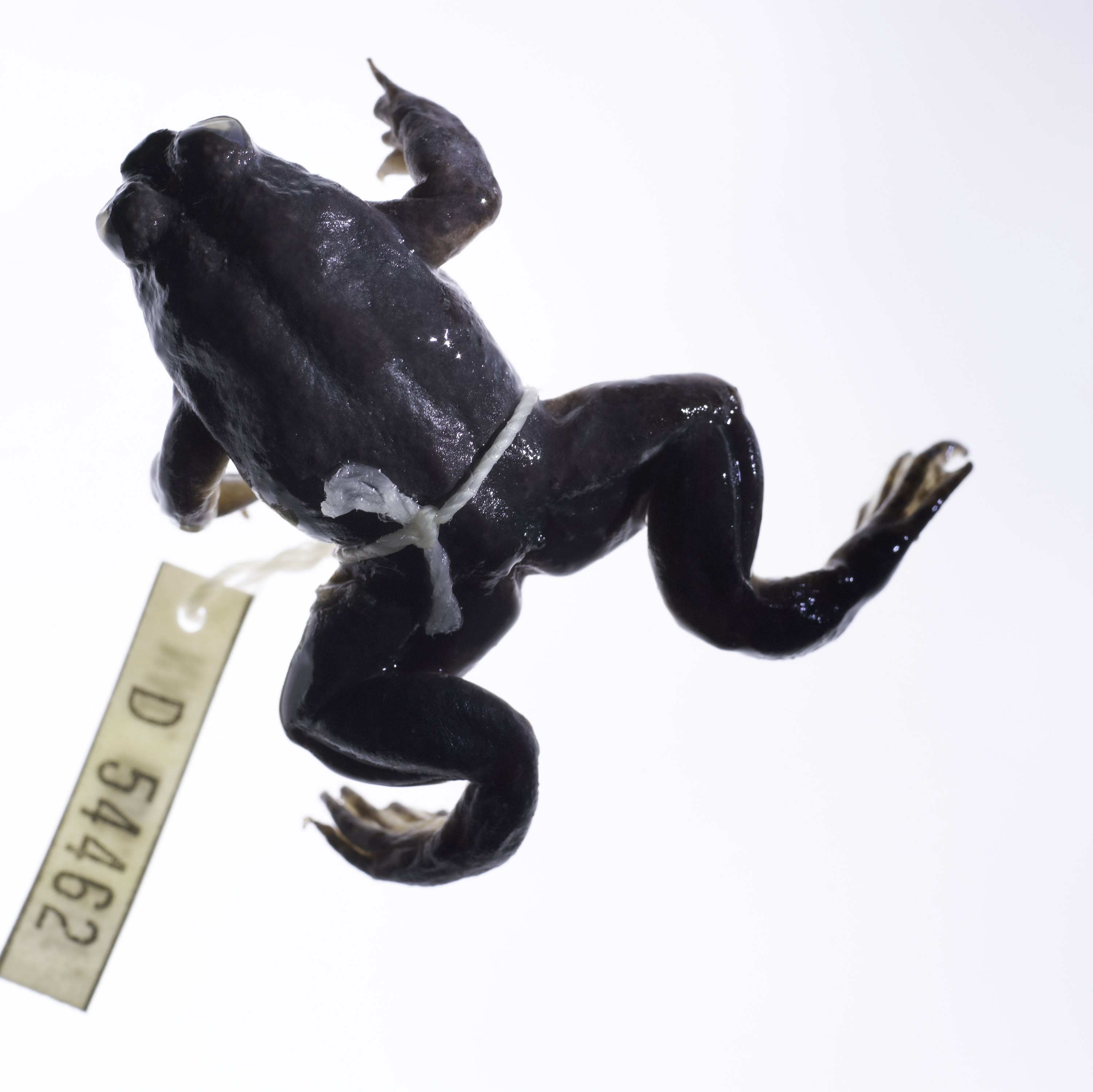 Rheobatrachus silus, Southern Gastric Brooding Frog, spirit specimen. Registration no. D 54462.